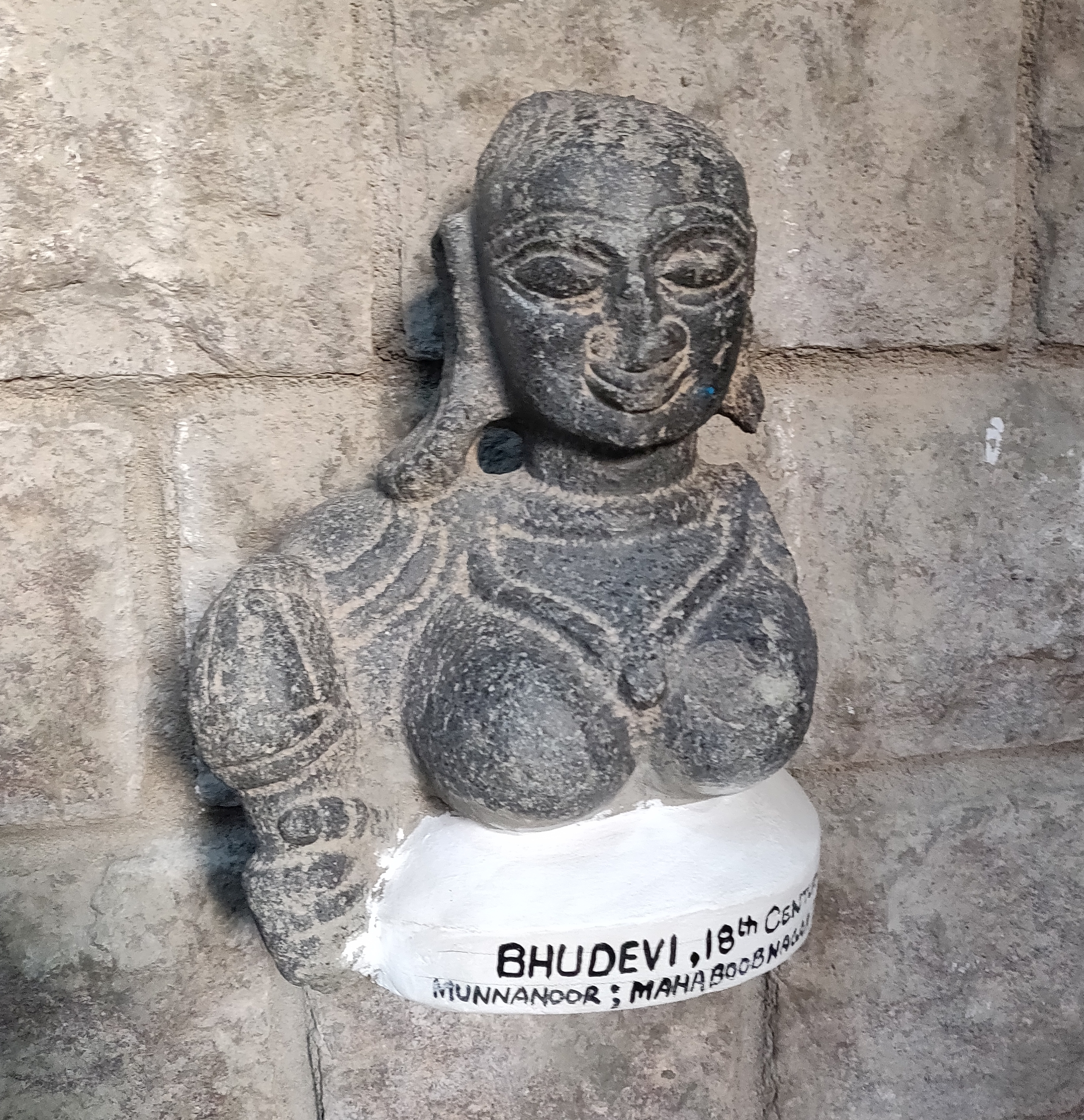 Pictured clicked in Birla Science Museum, Hyderabad. The stone sculptures are kept outside, open air within the Birla museum complex. Title: Bhudevi Era: 18th CAD Provenance: Munnanoor, Mahaboobnagar